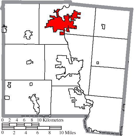 Map of the municipal and township boundaries of Miami County, Ohio, United States, as of the 2000 census, with the location of the city of Piqua highlighted. Township borders are shown only in unincorporated areas in order to differentiate incorporated and unincorporated areas more clearly.